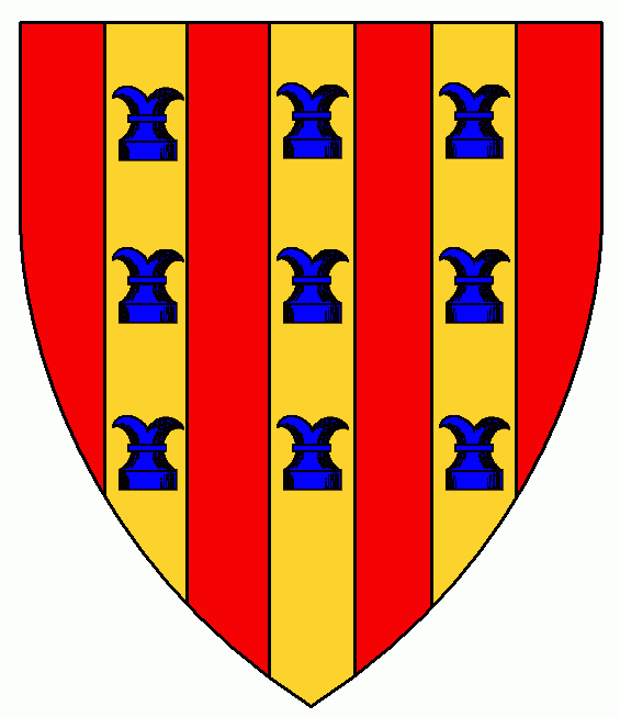 Escut d'armes de la família Rocabertí (ss. X-XVI) / Coat of arms of Rocabertí family (10th-16th c.)